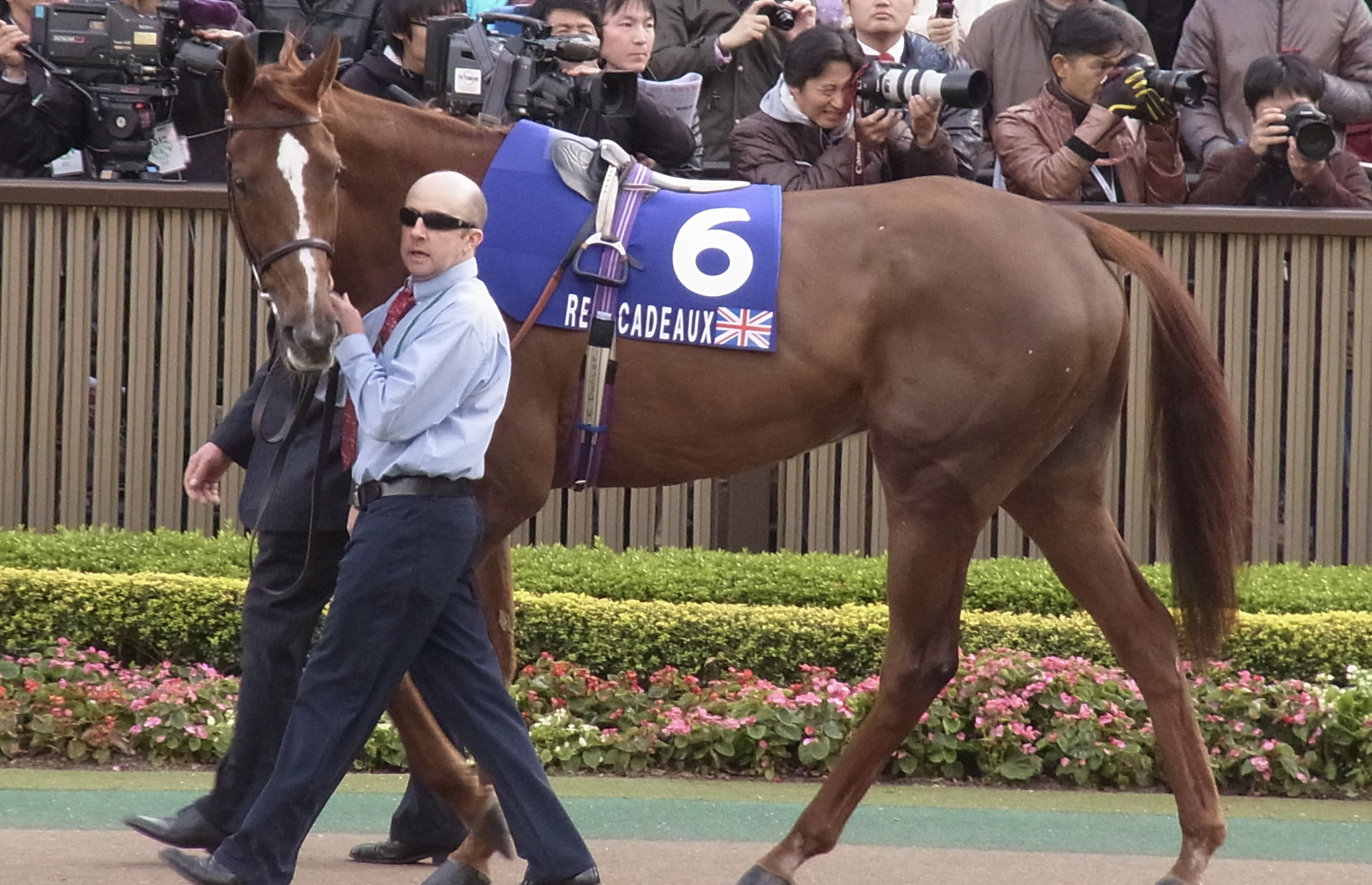 Red Cadeaux (2012Japan Cup)